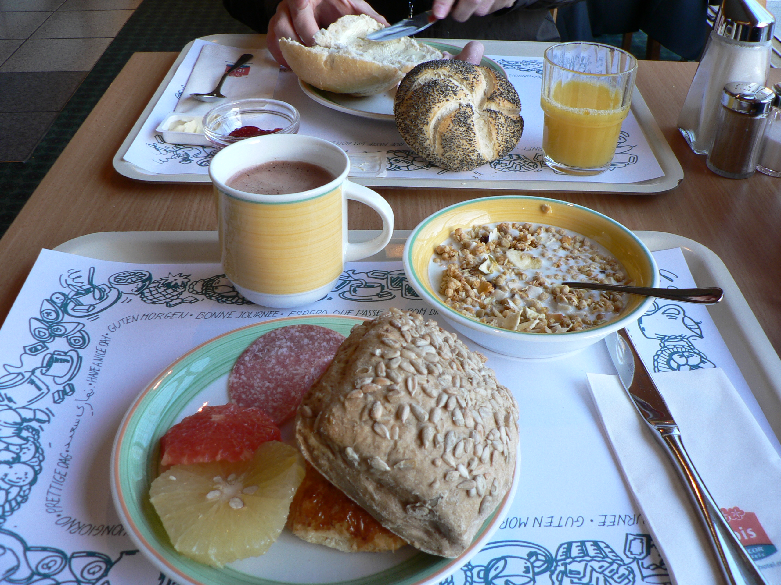 breakfast at Ibis hotel Bochum